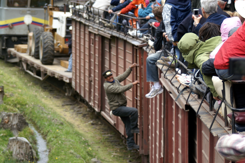 View from a roof of a train in Ecuador near the Devil's Nose mountain.